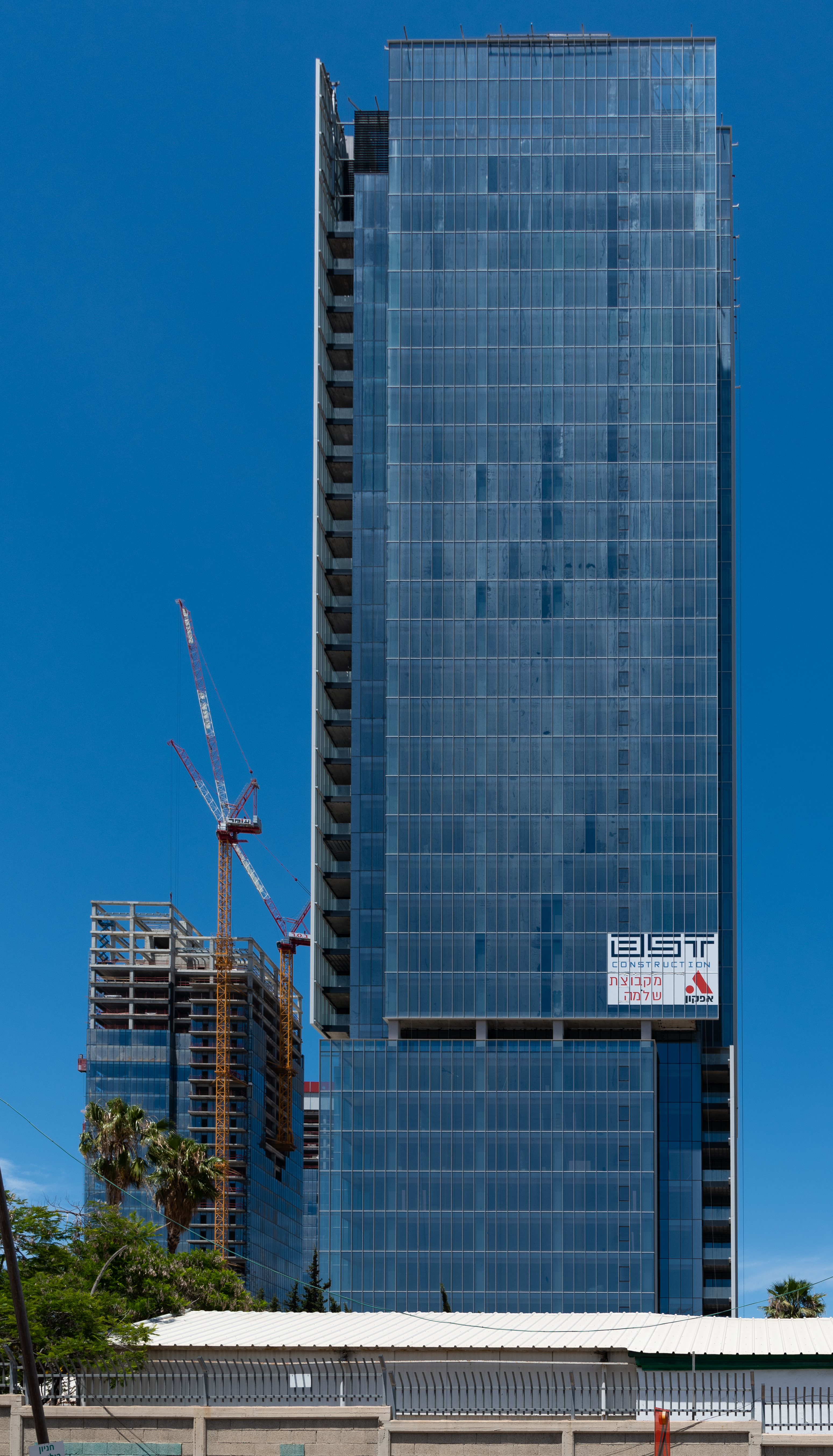 Global Towers 1, Petah Tikva, Israel, as seen from Denmark Street.